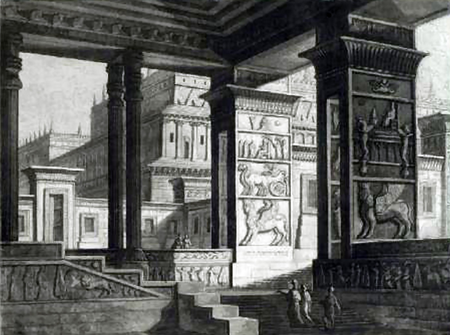 Antonio Basoli's stage set for the Meyerbeer's opera Semiramide riconosciuta (the Royal Palace of Babylon)